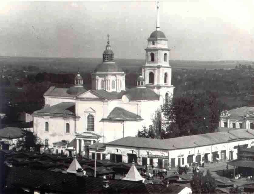 Trinity Cathedral in Glukhov